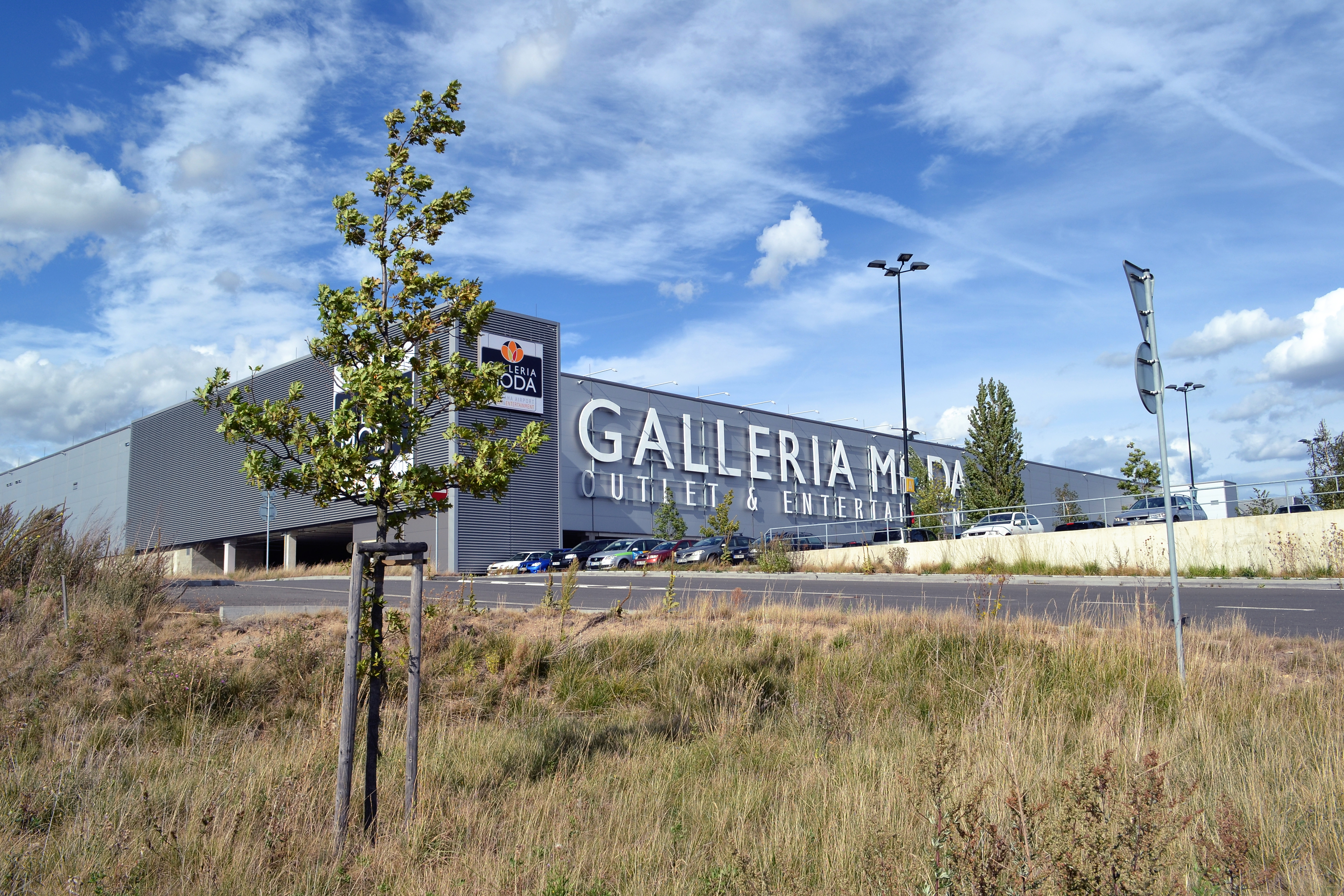 Shopping center Galleria Moda near Tuchoměřice and near Prague-Ruzyně airport.